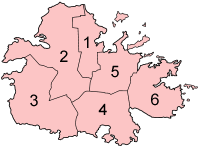 Map of the parishes of Antigua, numbered in English (native language) alphabetical order. The nation is "Antigua and Barbuda" but only Antigua has parishes; Barbuda is a dependency (as is Redonda). Saint George Saint John Saint Mary Saint Paul Saint Peter Saint Philip